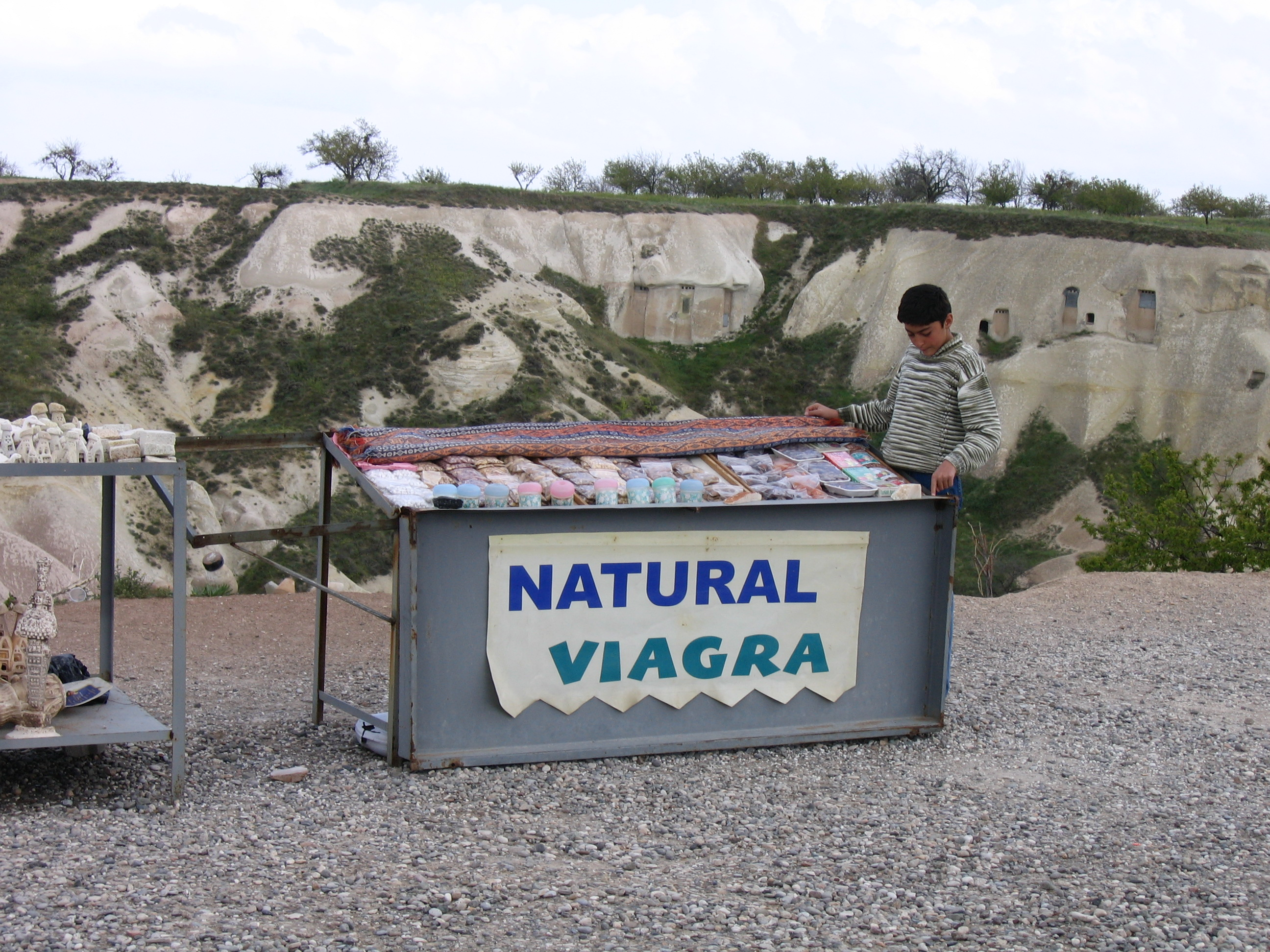 This young entrepreneur was selling at the tourist stop overlooking Pigeon Valley.